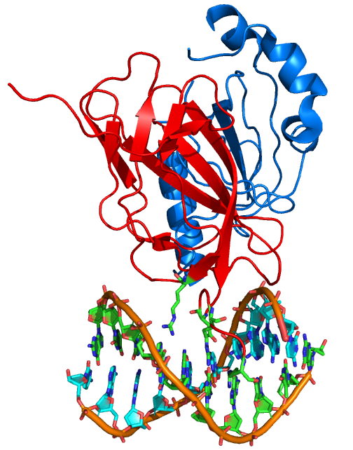 Cartoon representation of the molecular structure of proteins and nucleic acid registered with 1H9D code. This is ternary Runx1(AML1)-CBFβ-DNA complex. The Runt domain of Runx1 is red, and CBFβ is blue. PDBid=1H9D